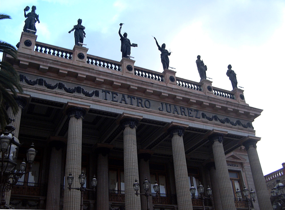 A photo of Teatro Juarez, in Guanajuato (city), Mexico. Shot in October, 2006, my own work.